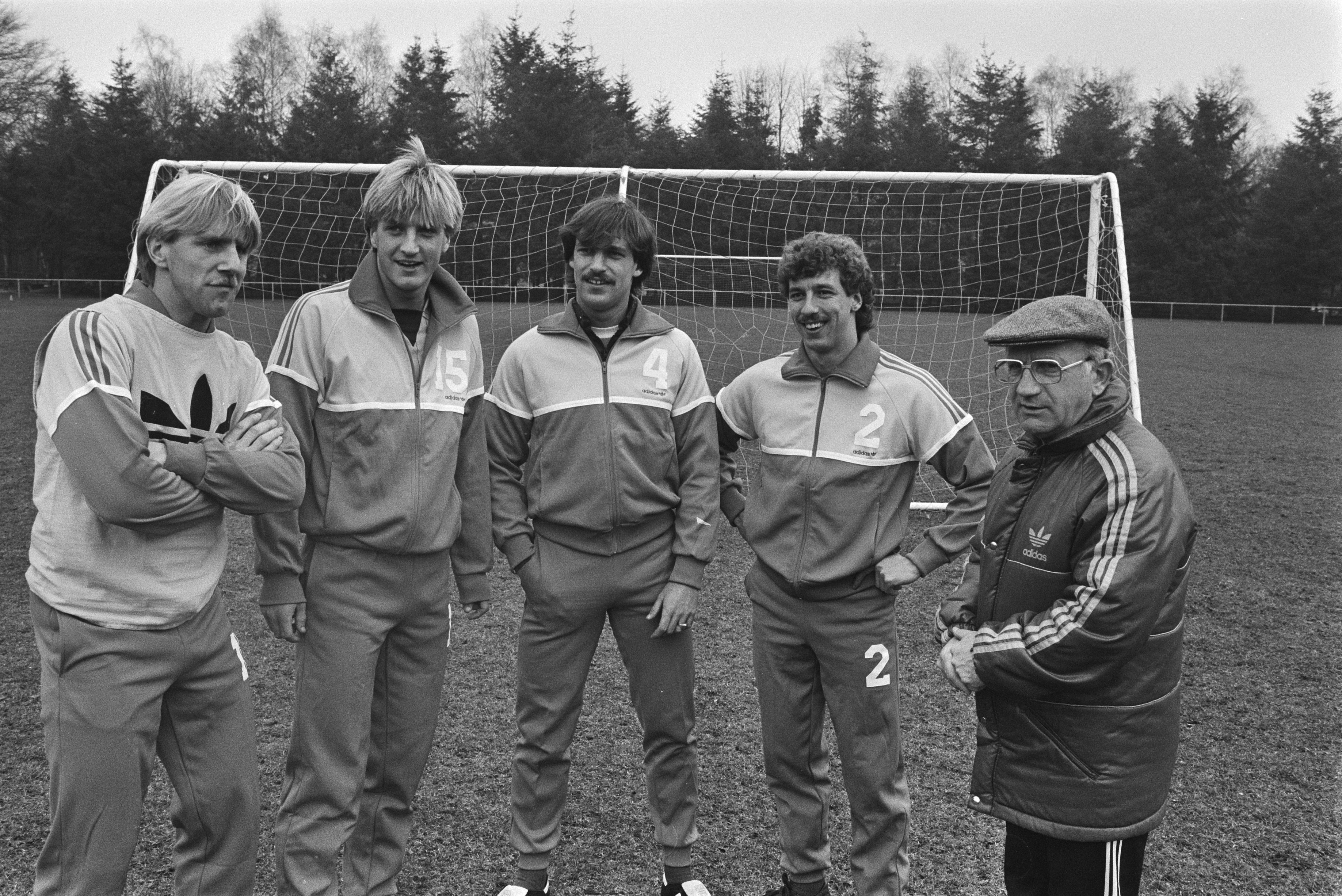 Dutch footballteam, training 13 March 1984. From left to right: André Hoekstra, Wim Kieft, René van der Gijp, Wout Holverda and Kees Rijvers (coach)